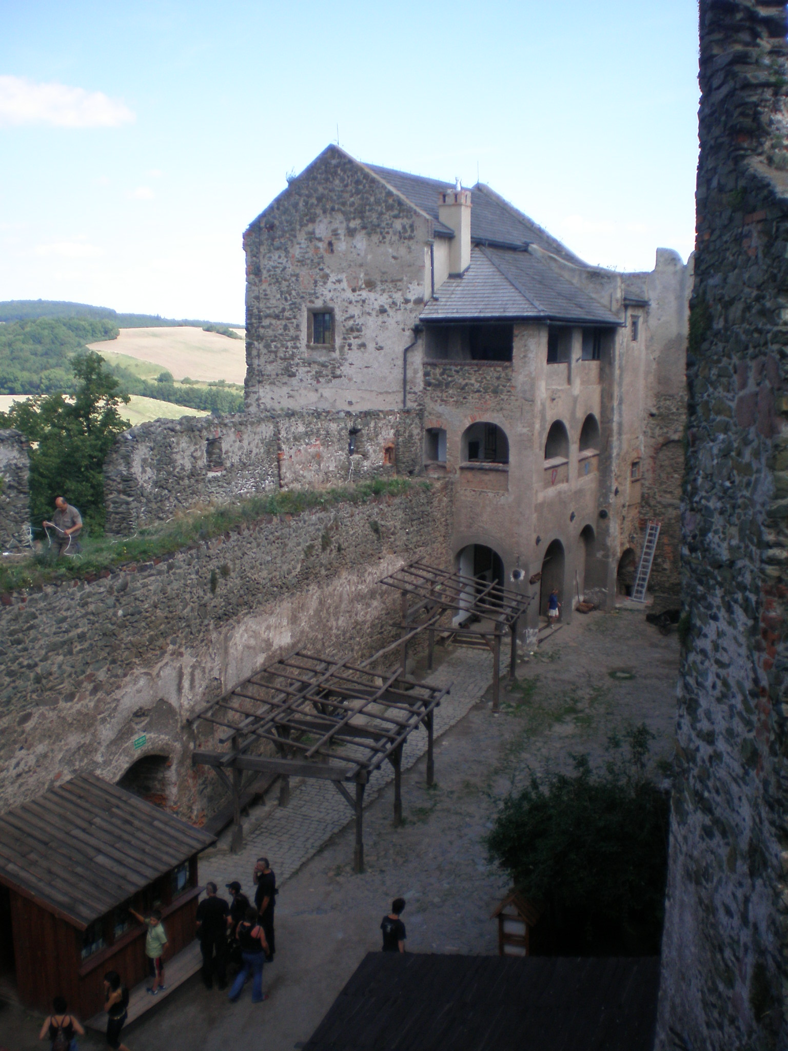 Bolków Castle